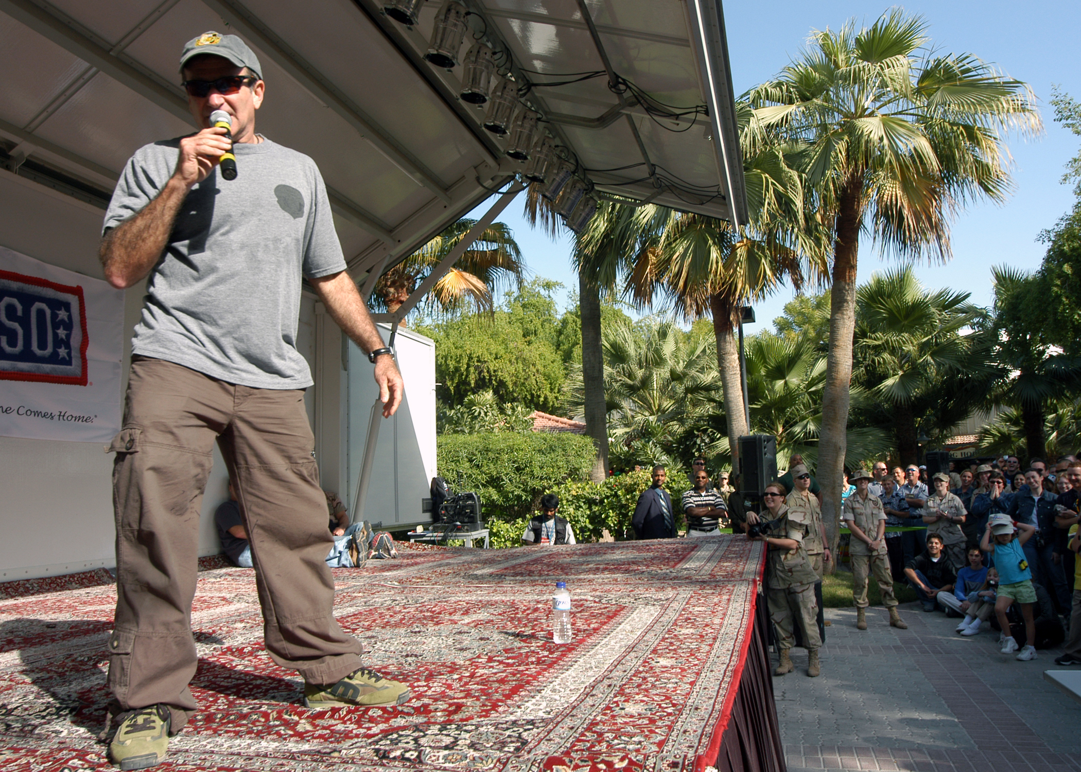 031219-N-3879H-003 Manama, Bahrain (Dec. 19, 2003) -- Robin Williams performs for the audience at an all-hands gathering aboard Naval Support Activity Bahrain. Williams was in Bahrain with General Richard B. Myers, Chairman, Joint Chief of Staff, who was hosting a United Service Organization (USO) show, which also featured World Wrestling Entertainment (WWE) wrestler Kurt Angle and NASCAR driver Mike Wallace.